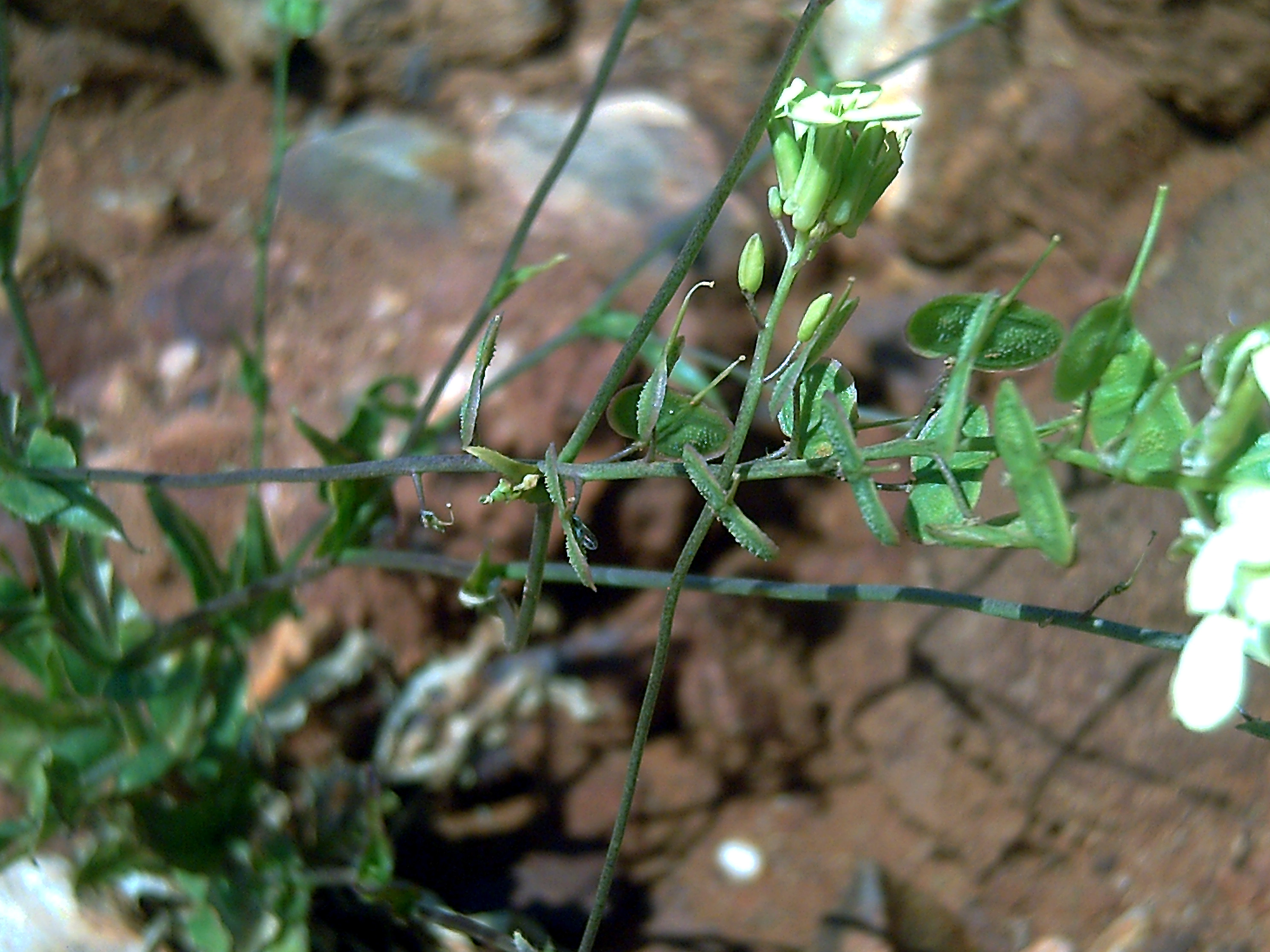 Biscutella_auriculata en el Category:Flora of Campo de Calatrava, Category:Province of Ciudad Real, Spain.